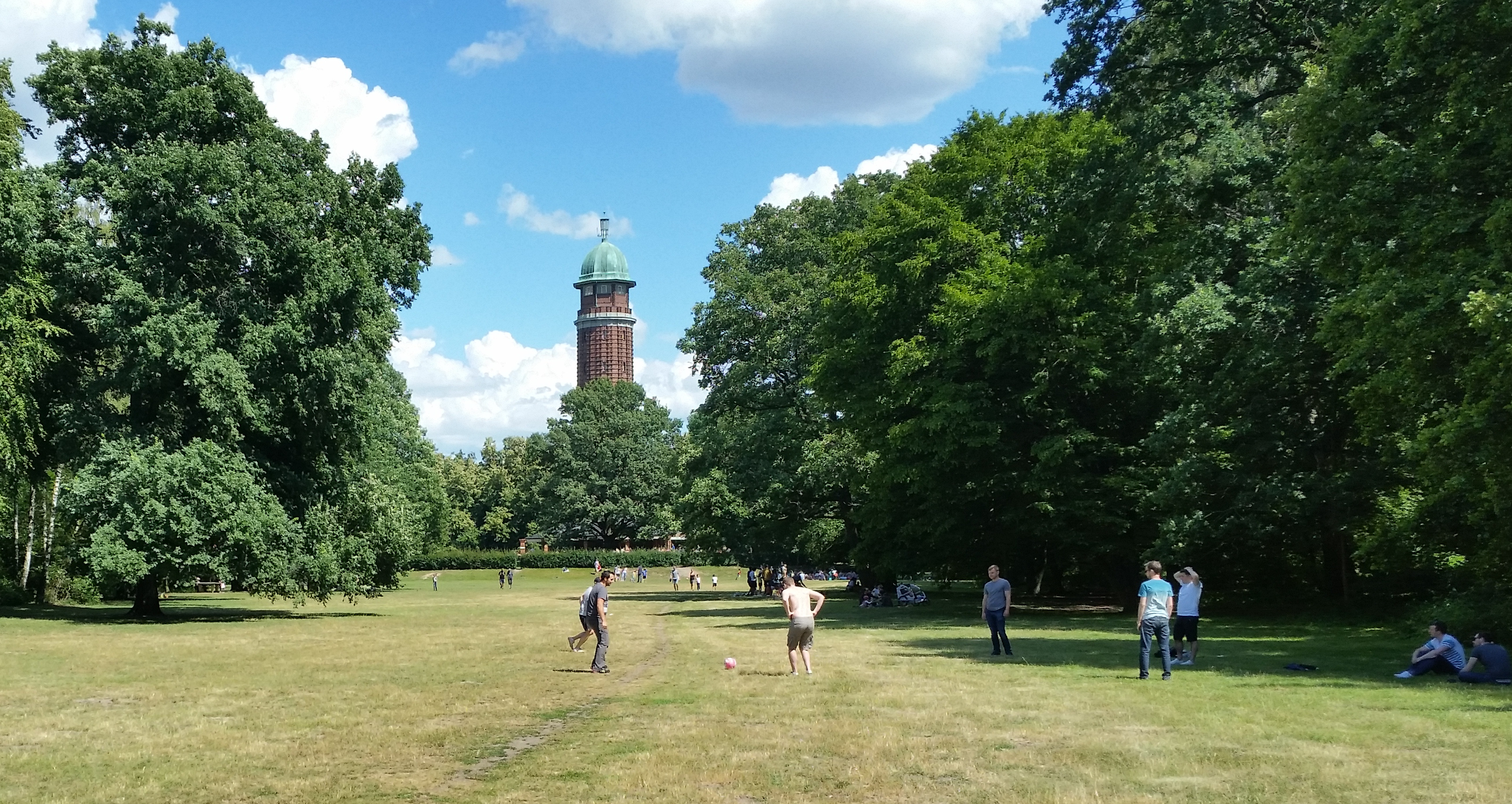 Open field in the "Volkspark Jungfernheide" in Berlin, with view of the water tower.